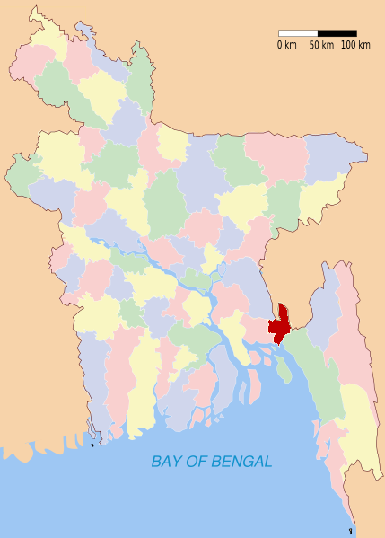 District locator map in red in Bangladesh